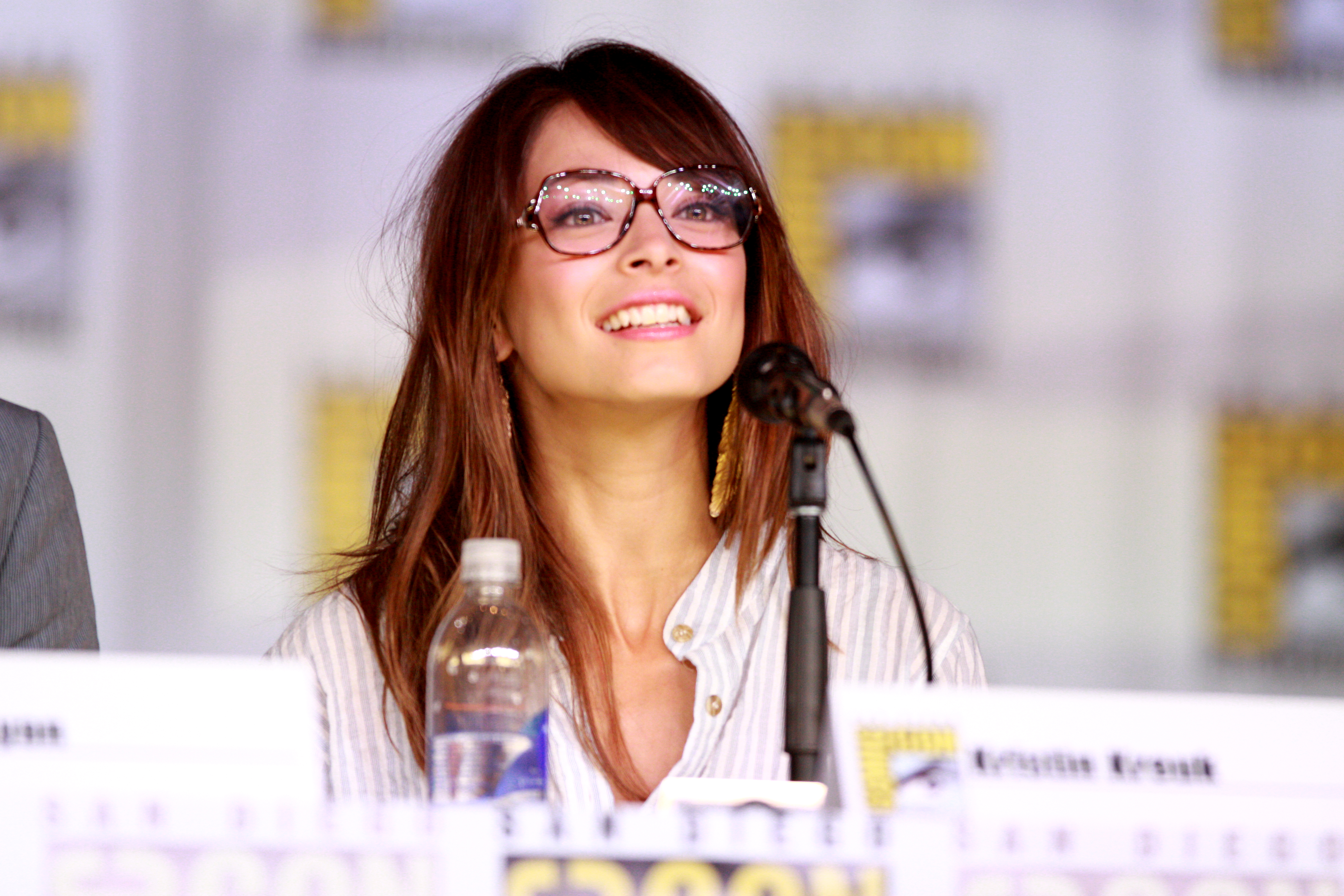 Kristin Kreuk speaking at the 2013 San Diego Comic Con International, for "Beauty and the Beast", at the San Diego Convention Center in San Diego, California.